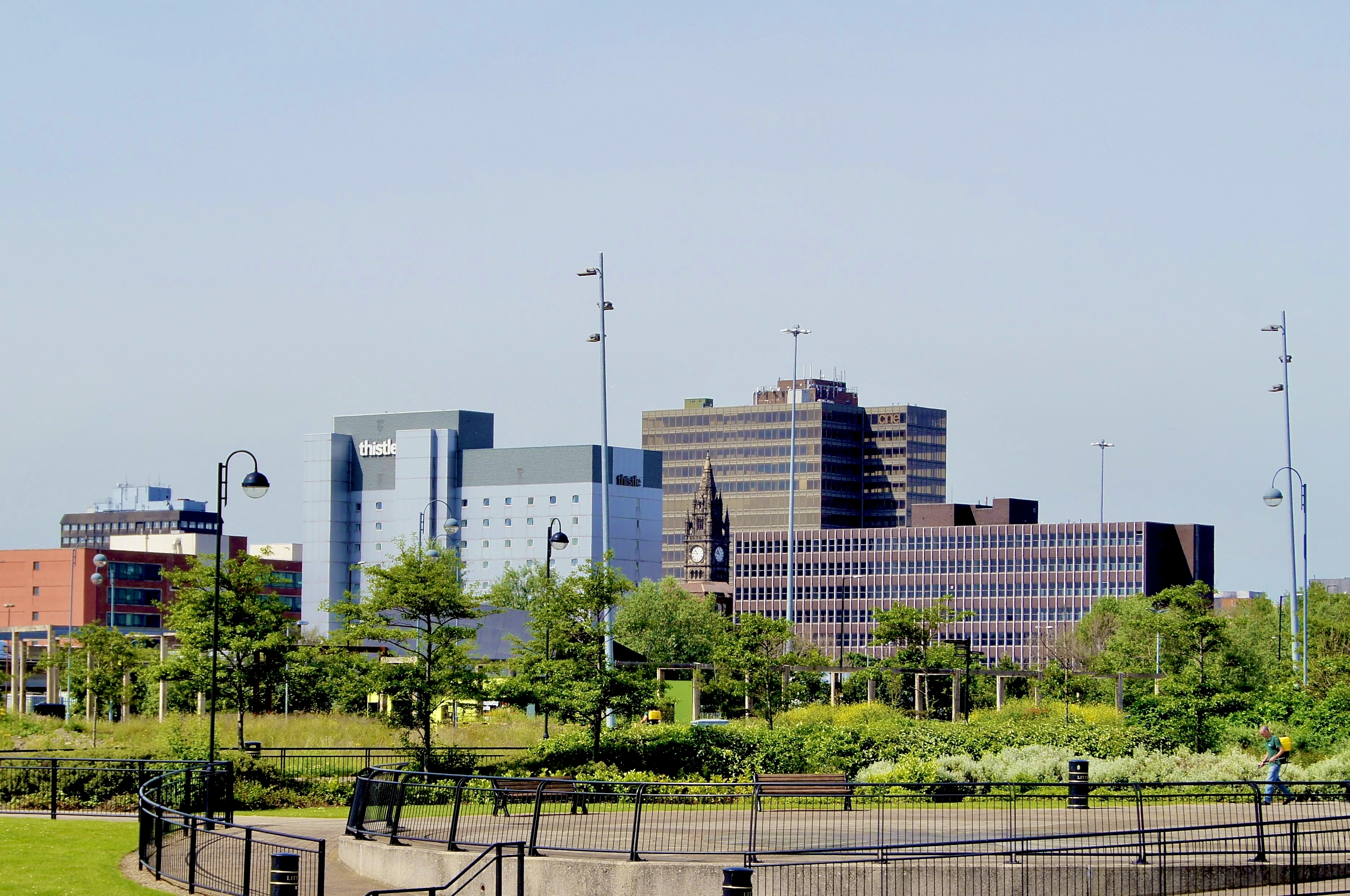 View of Middlesbrough town centre, taken from Hudson Quay, Middlehaven district.